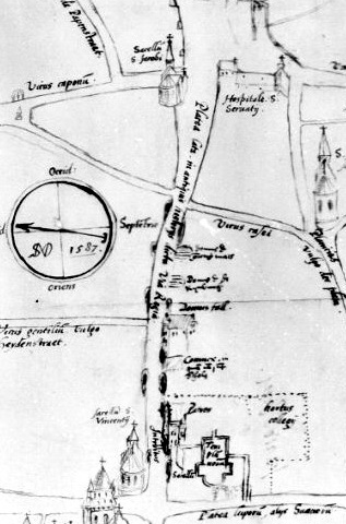 Maastricht, the Netherlands. Detail of a sketch of the central area of Maastricht by Simon de Bellomonte, perhaps made for planning preparations of the Jesuit monastery (1587). Collection of the Bibliothèque national de France, Paris. Here: Bredestraat (or Platea Lata or Via Regia) between Vrijthof (top) and Onze Lieve Vrouweplein (bottom).